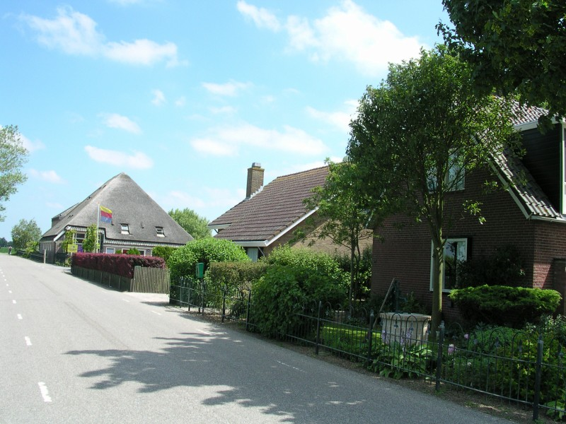 De buurtschap Tin. The hamlet of Tin